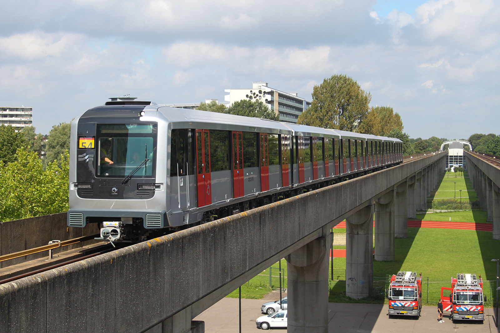 New metrotrain for Amsterdam on a testdrive near station Kraaiennest in Amsterdam Zuidoost.